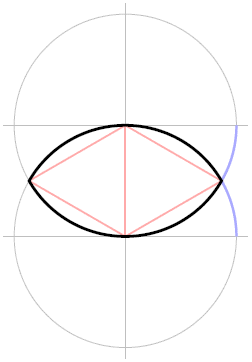 Geometrical construction diagram for Vesica Piscis figure, formed by the intersection of two circles of the same radius, where each circle's center is on the circumference of the other circle. Black: Vesica Piscis figure itself Light blue: Claimed "fishtail" extensions (when it is desired to approximate the Vesica Piscis to an Ichthys) Light red: Two equilateral triangles formed by drawing straight lines between the centers of the two circles, and between the circle centers and the points of intersection of the circles.